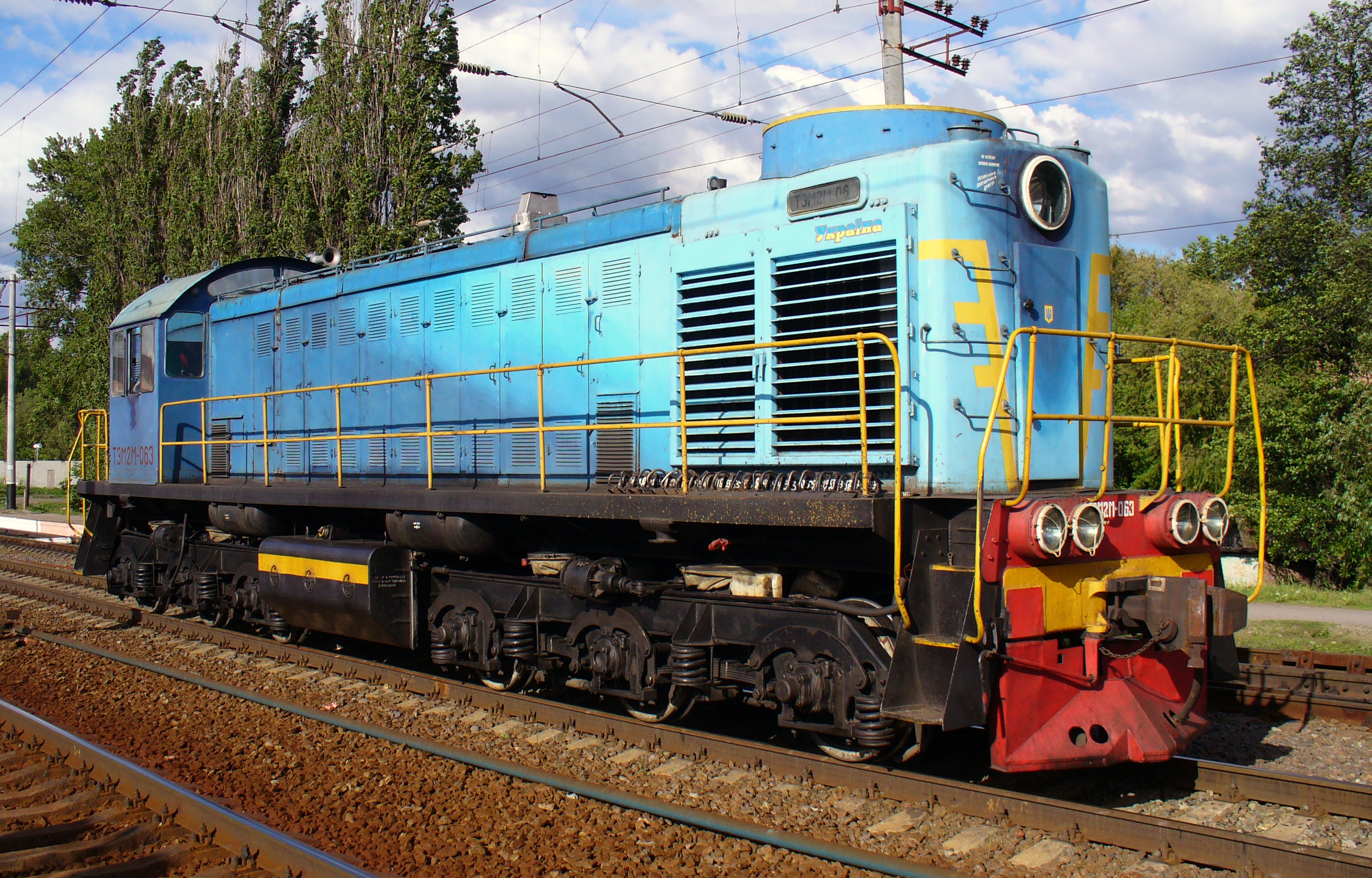 Locomotive TEM2M-063 in Vinnitsa railway station, Ukraine.